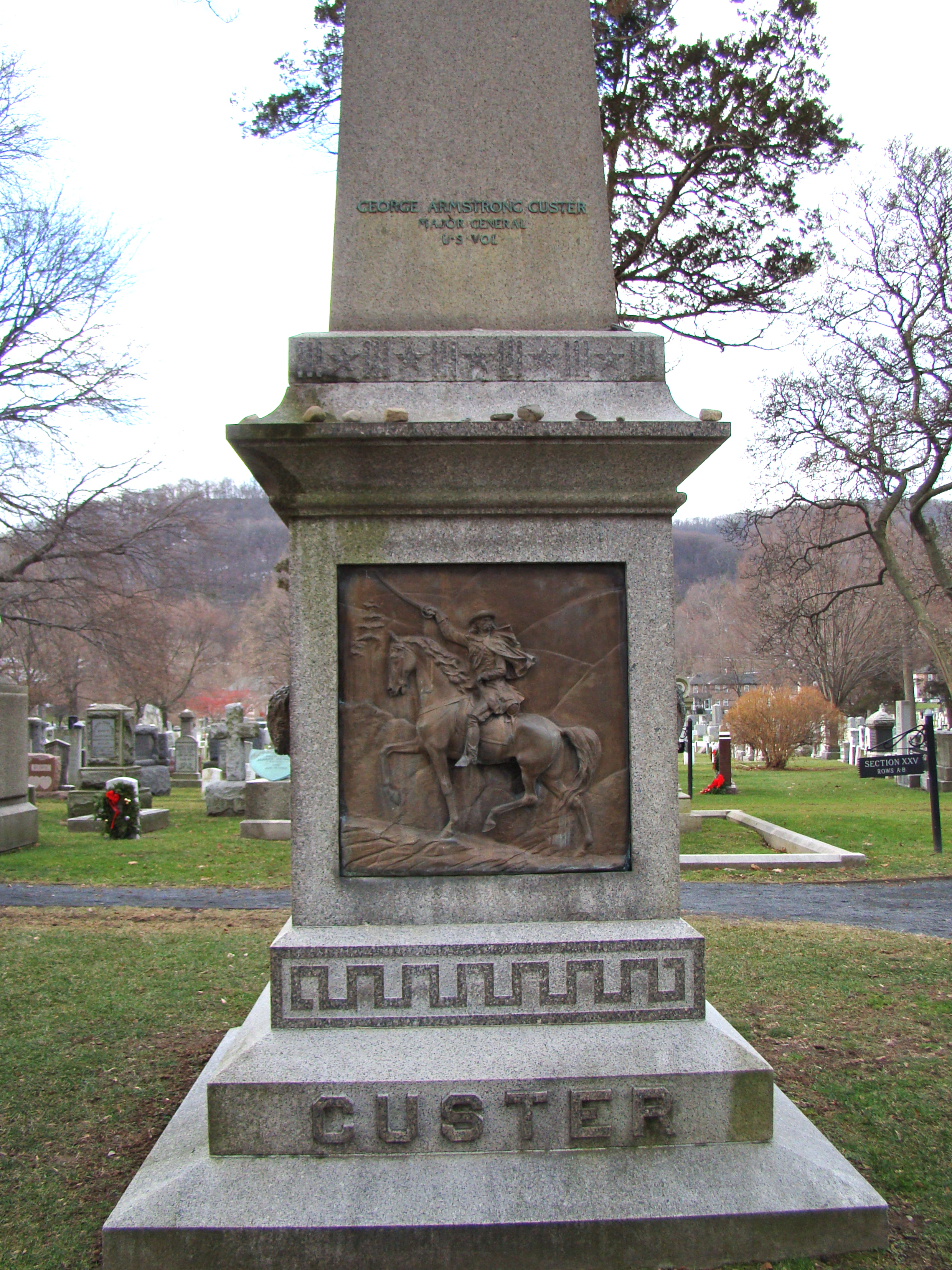 Base of Custer's Monument, West Point Cemetery, United States Military Academy